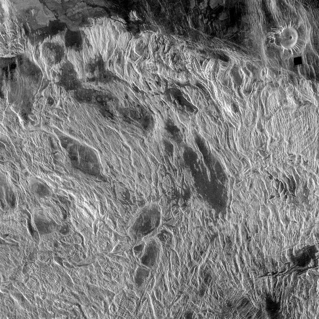 Ridges and Troughs On this bright, lineated terrain Alpha Regio is a series of troughs, ridges, and faults running in every direction. The lengths of these features range from 10 km (6.3 mi) to 60 km (37 mi). The elevation of Alpha Regio varies over a range of 4 km (2.5 mi). Low-lying areas appear dark in the radar images and may be filled with lava. Volcanoes appear as bright spots on the smooth plains. Notice the large volcano in the upper right. At the center of this 35 km (22 mi) volcano is a caldera; its western edge appears to be either a debris flow or a lava flow. The black square represents missing data.